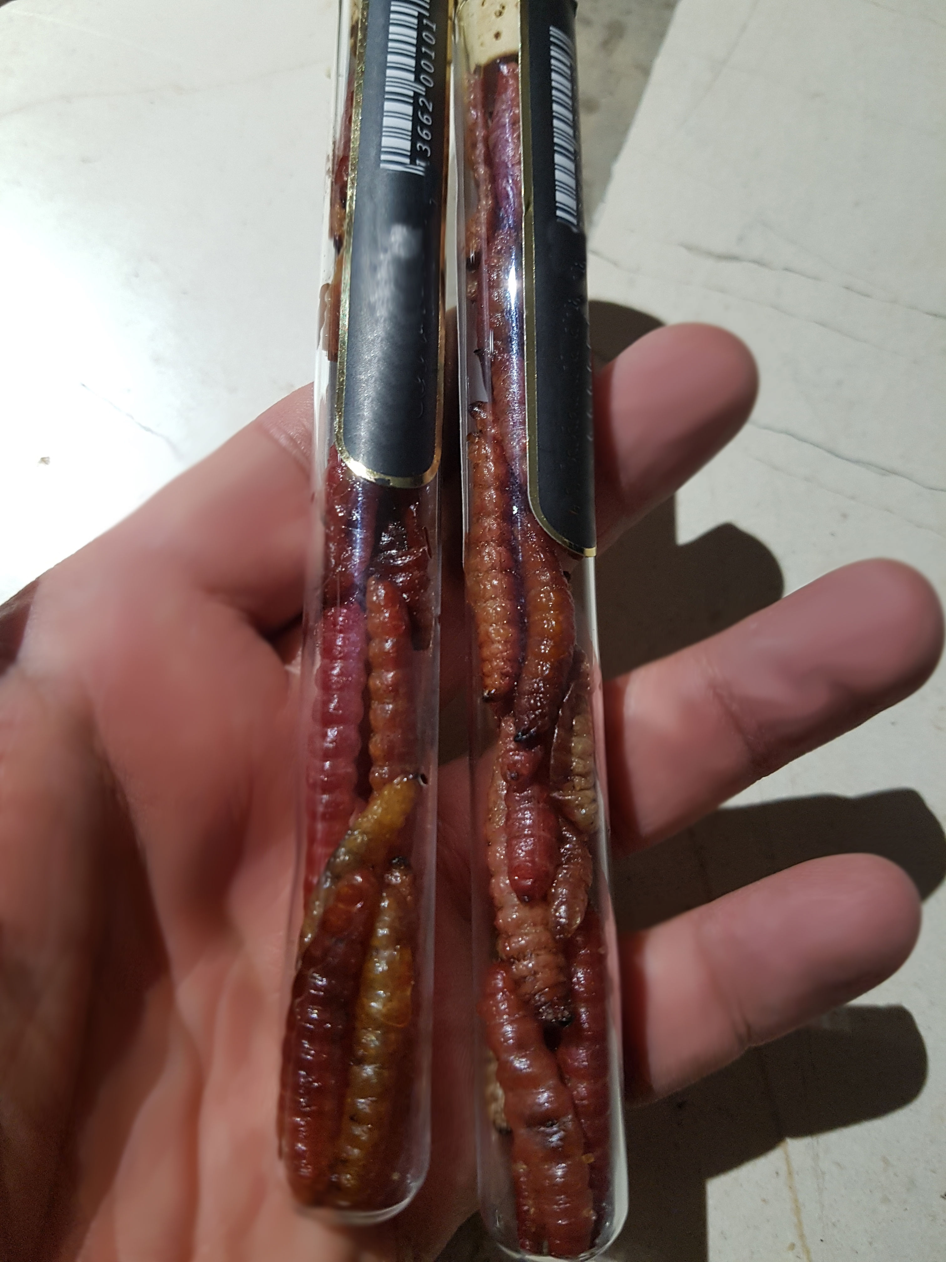 Dry, eatable maguey worms